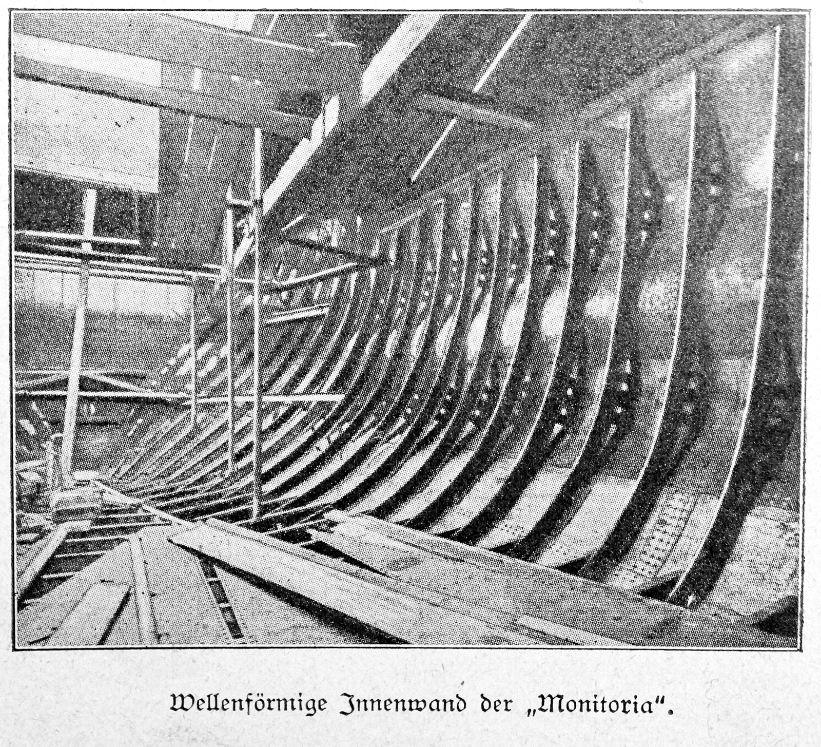 Inside view of the corrugated steam-ship Monitoria